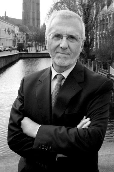 Picture of Paul Demaret, rector of the College of Europe